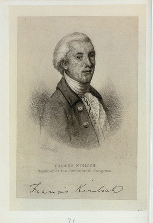 Francis Kinloch, Delegate to Continental Congress